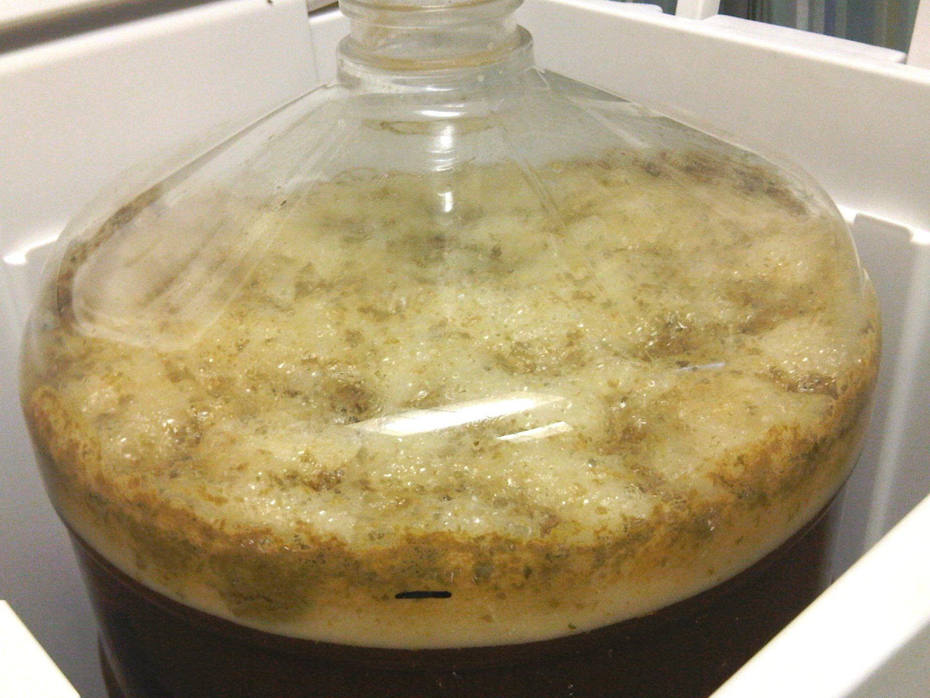 krausen